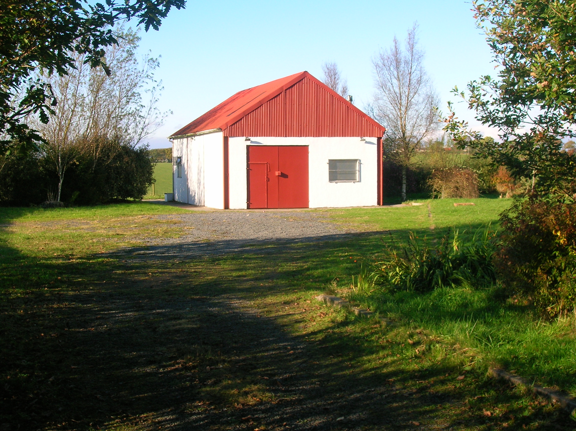 Freezeland smallholding, Stewarton, East Ayrshire, Scotland.